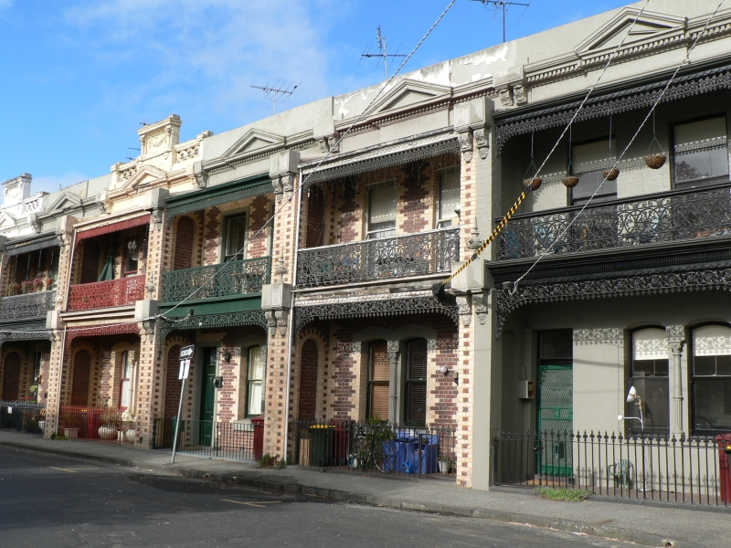 Victorian terraces in Fishley Street, South Melbourne